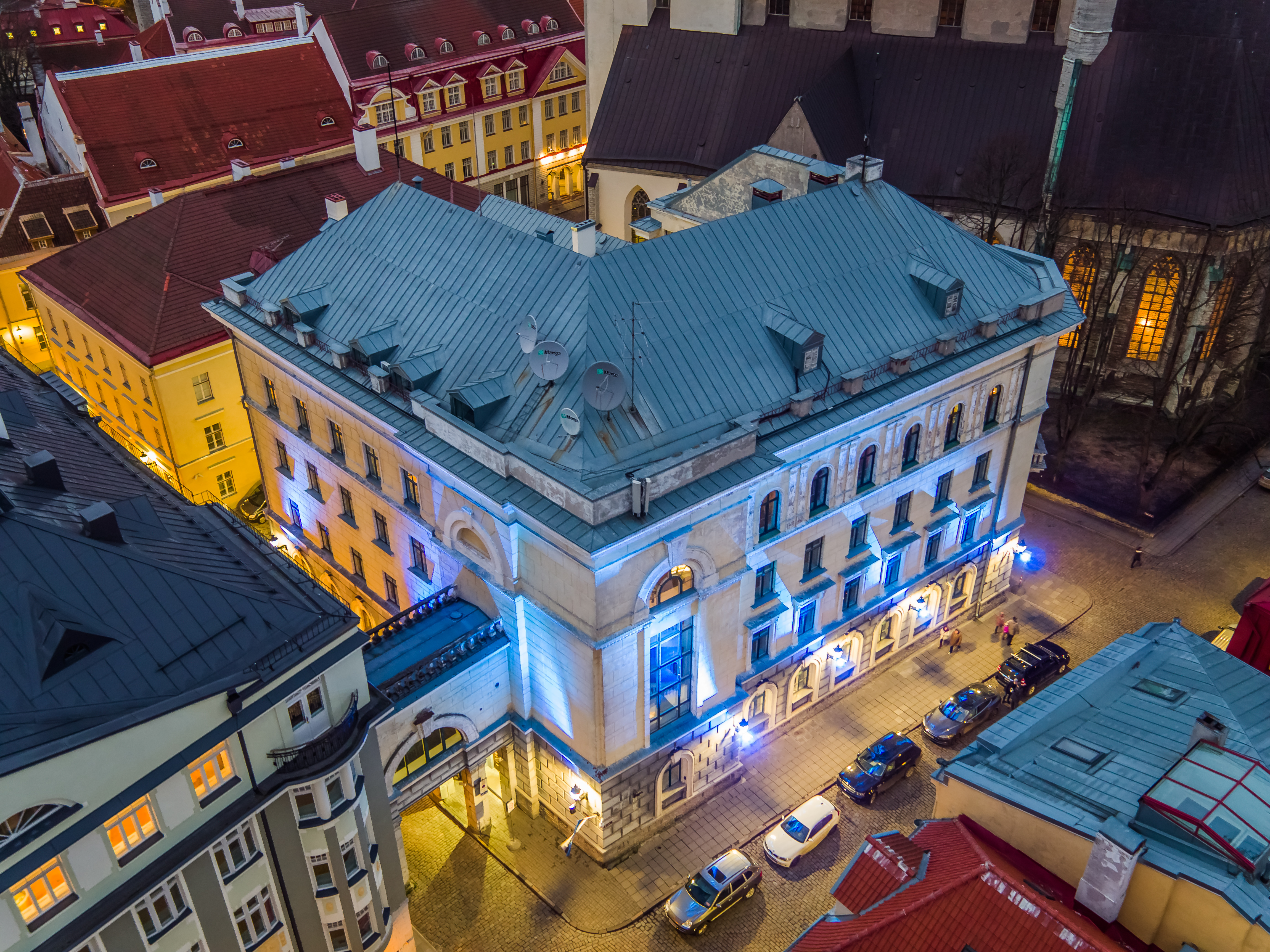 This image pictures the building of the Estonian Ministry of the Interior in Tallinn.